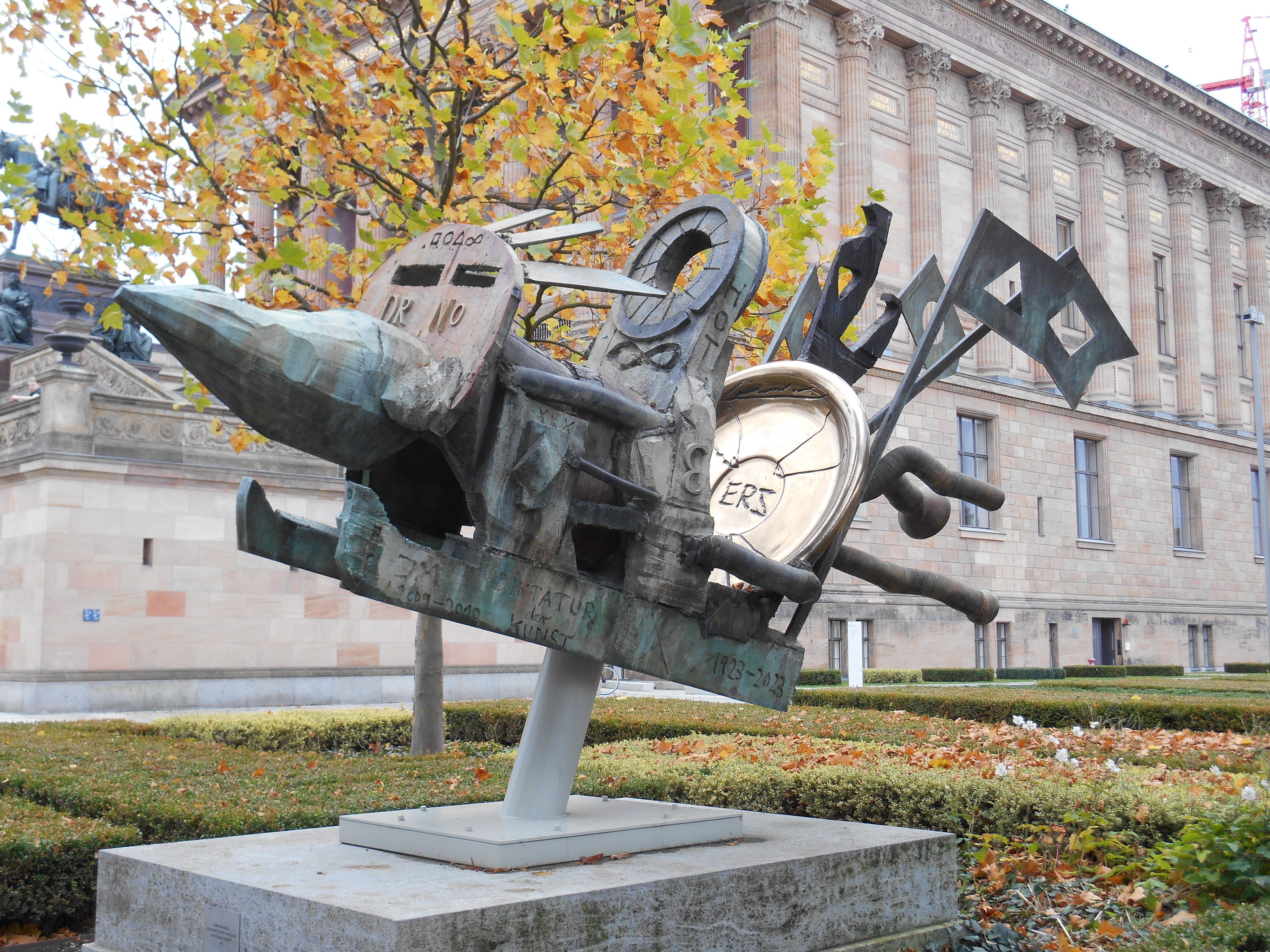 Humpty Dumpty, sculpture by Jonathan Meese (born 1970); situated in Kolonnadenhof of Museumsinsel in Berlin-Mitte, Berlin (Germany)